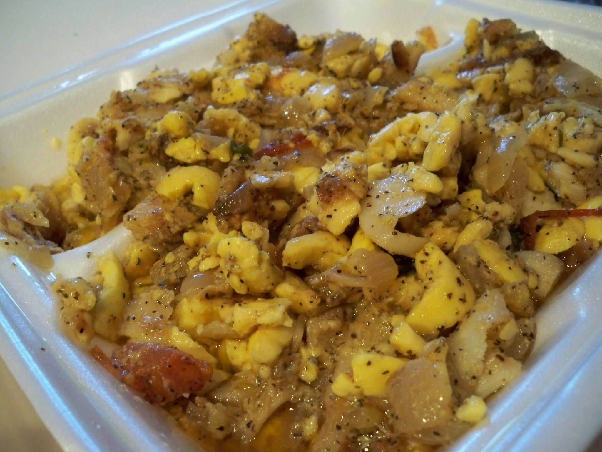 Ackee and Saltfish in a takeaway container